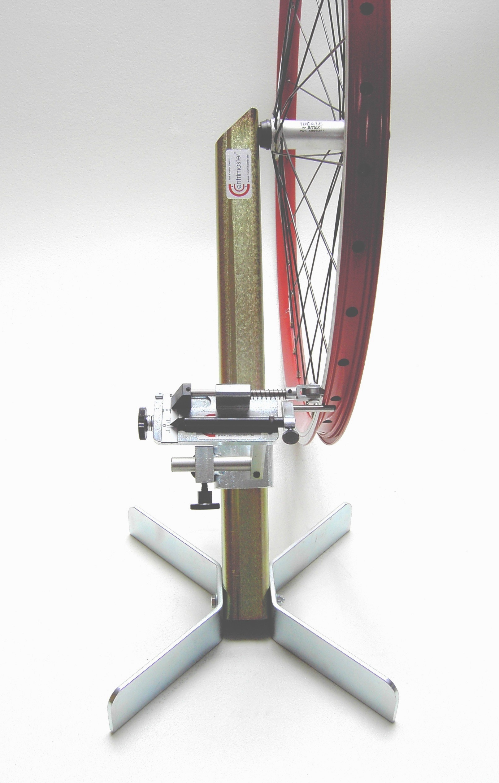 A simpler version also referred to as a truing stand is the single arm model on which one side of the wheel is attached to the hub. The rim position must again be checked using a truing gauge.